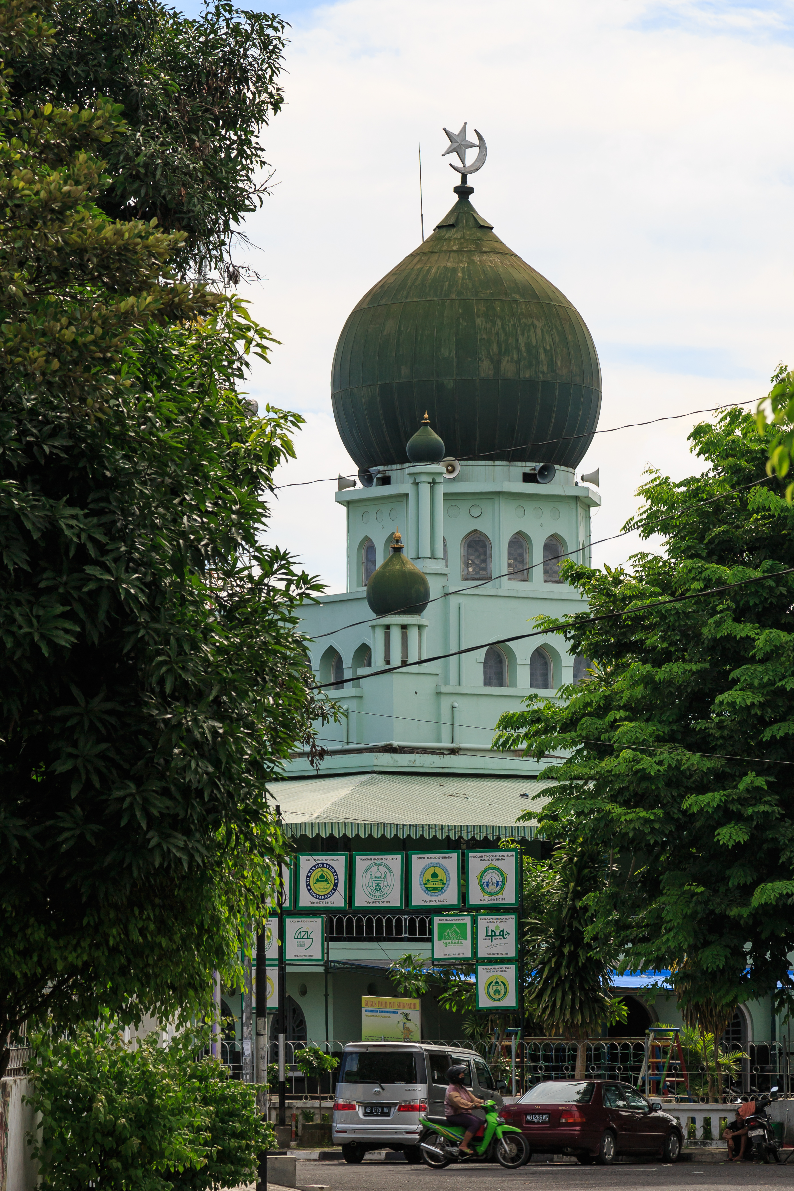 Yogyakarta, Indonesia: The Syuhada Mosque.